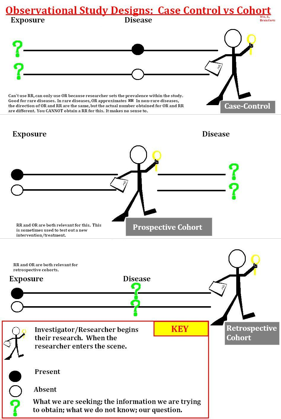 This was done using MS Paint and is entirely Kelidimari's doodling. RR is short for relative risk. OR is short for odds ratio.